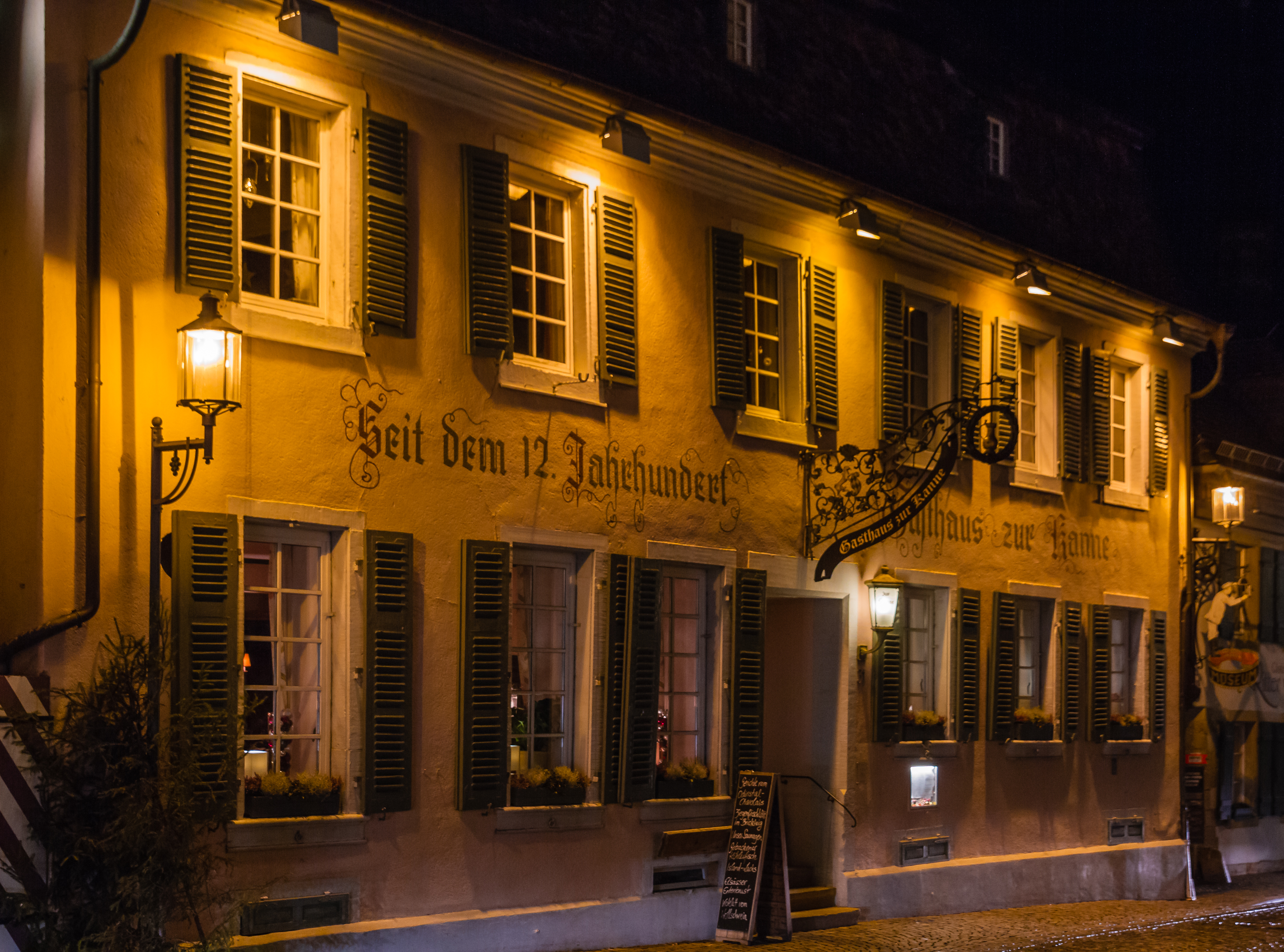 Home and restaurant „Zur Kanne“ Place: Weinstraße 31 in Deidesheim, administrative district Bad Dürkheim, Rhineland-Palatinate Date of construction: about 1710